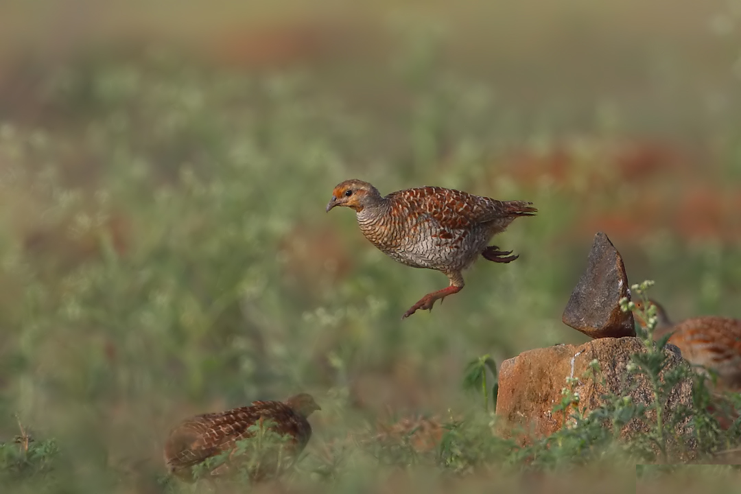 Grey Francolin jumping